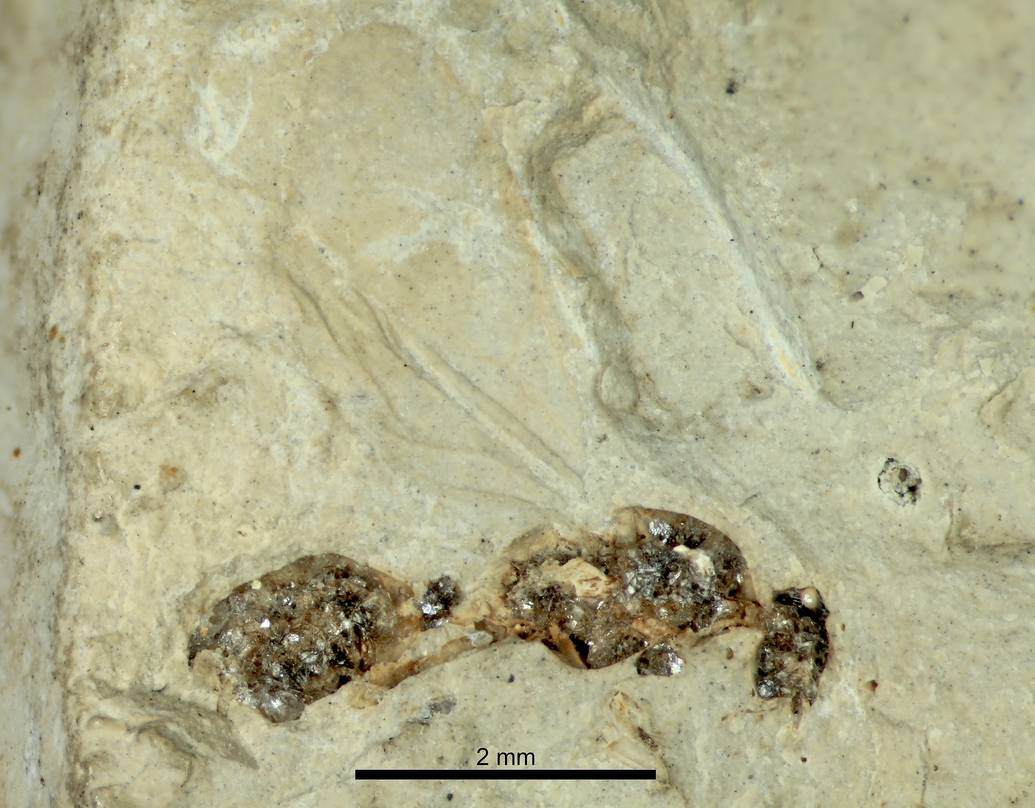 Closeup of Emplastus gurnetensis specimen. Natural History Museum, London specimen BMNHP9082